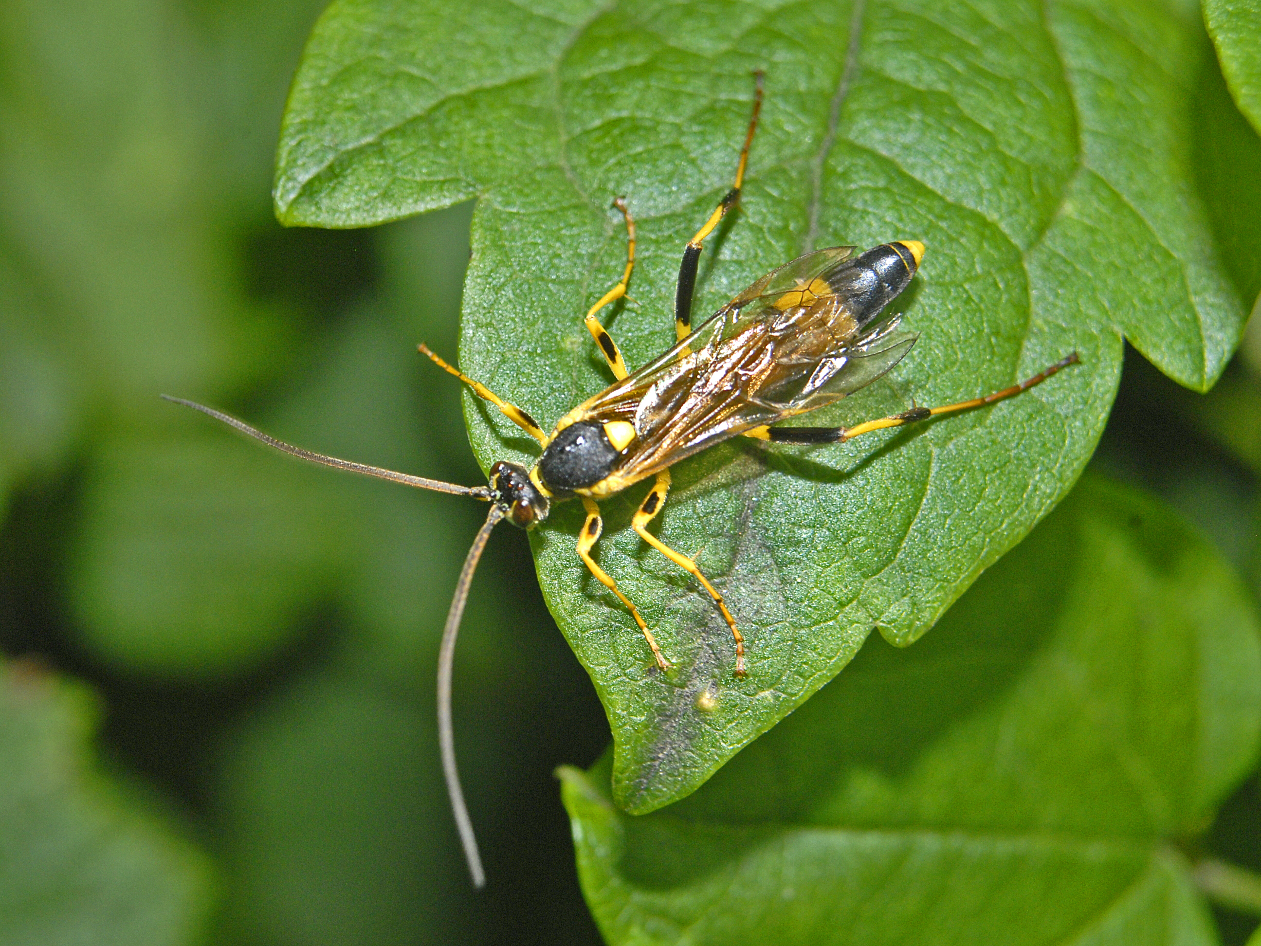 Amblyteles armatorius. Male. Dorsal view. Passo del Faiallo, Genova, Italy